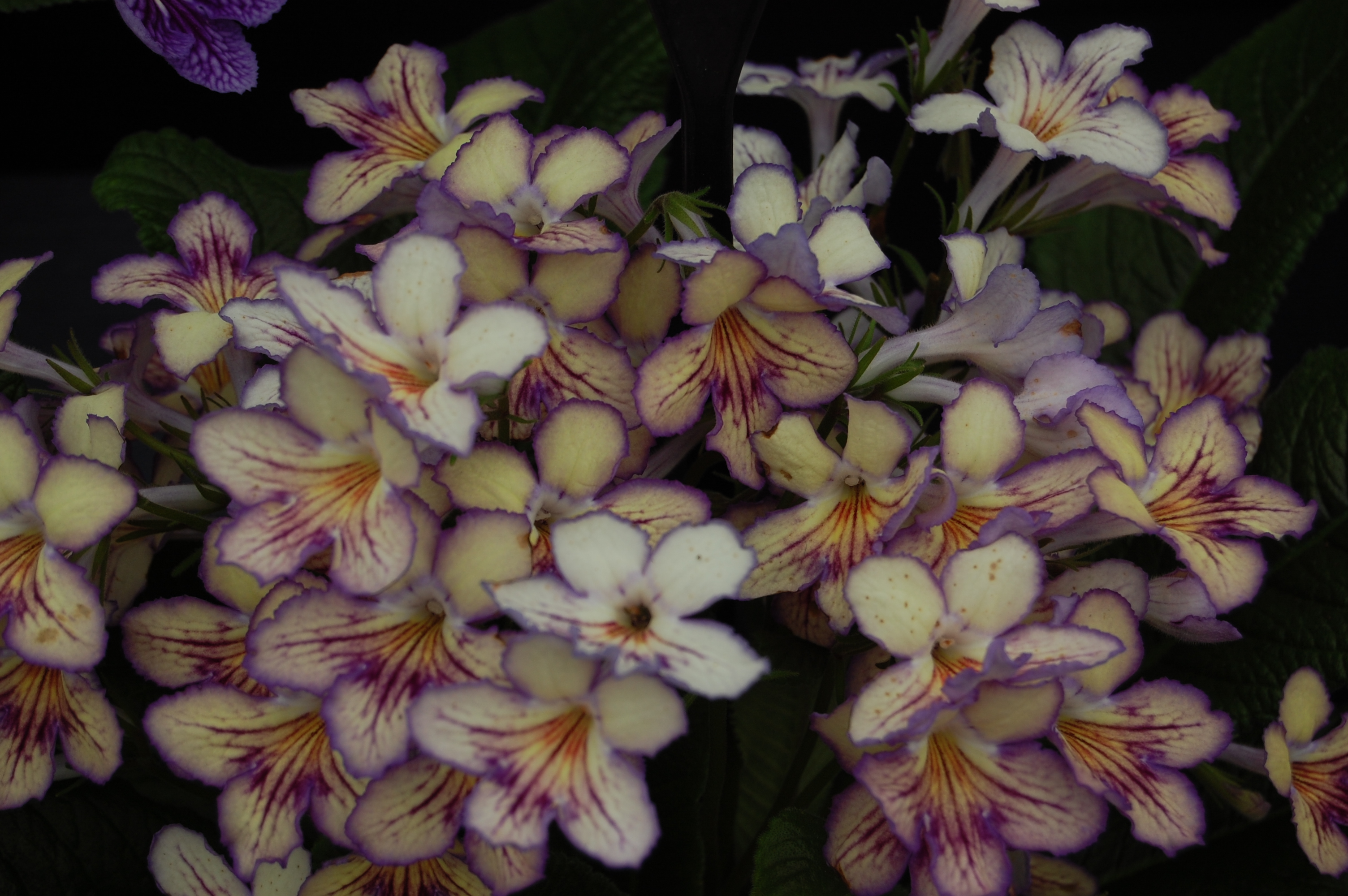 Streptocarpus 'Seren', displayed on the Dibleys Nurseries stand at Gardeners' World Live.